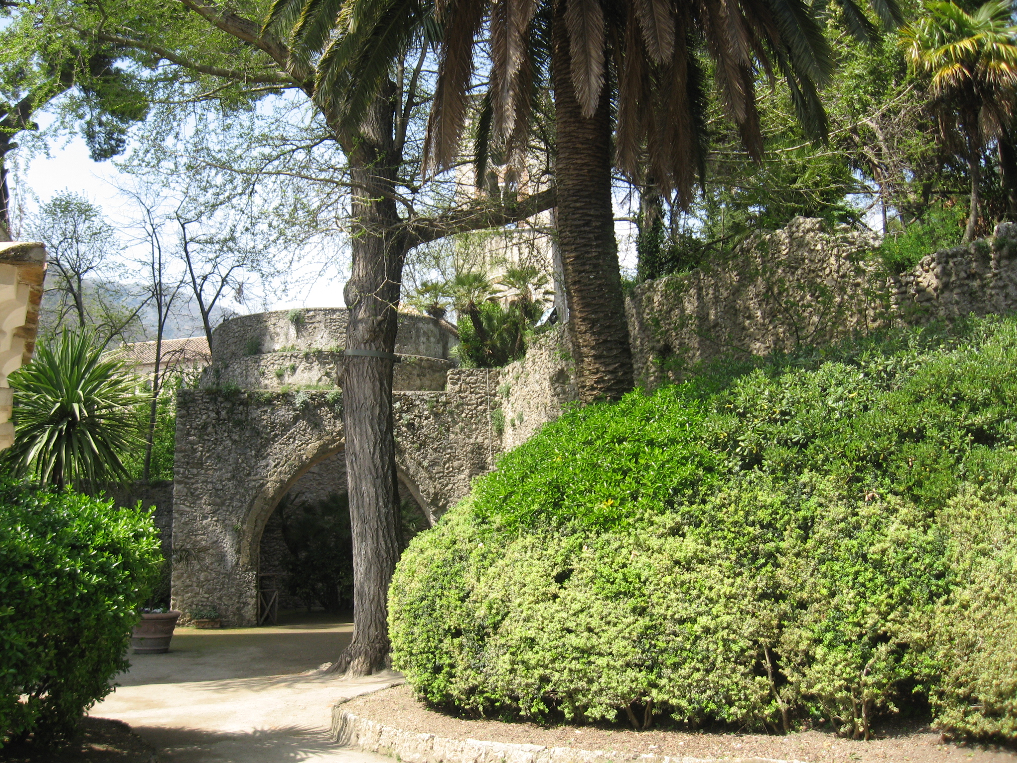 Ravello: Courtyard of Villa Rufolo